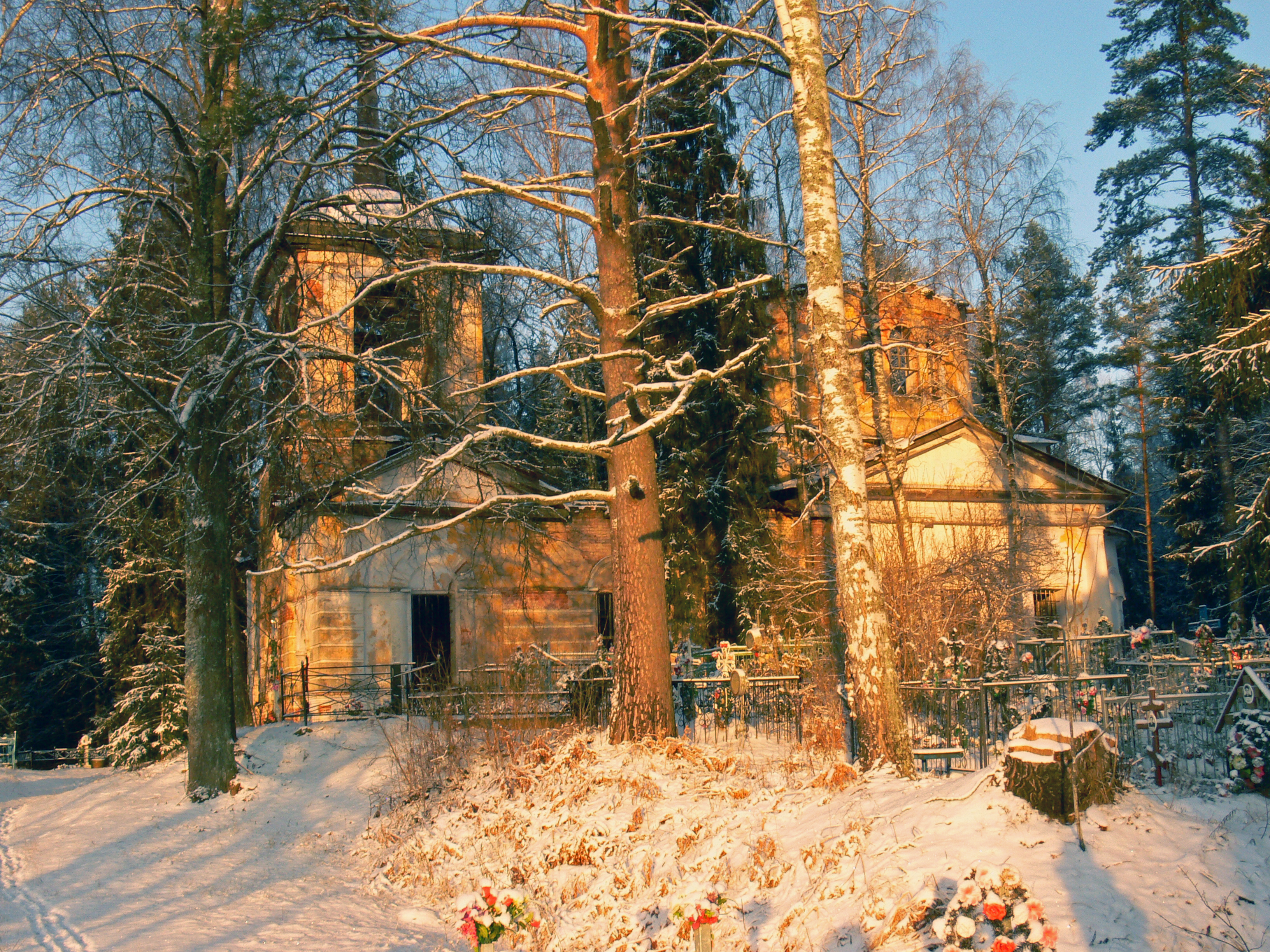 The churche Dubrovka village (Bronnitsky selsovet). Novgorodsky district, Novgorod oblast, Russia